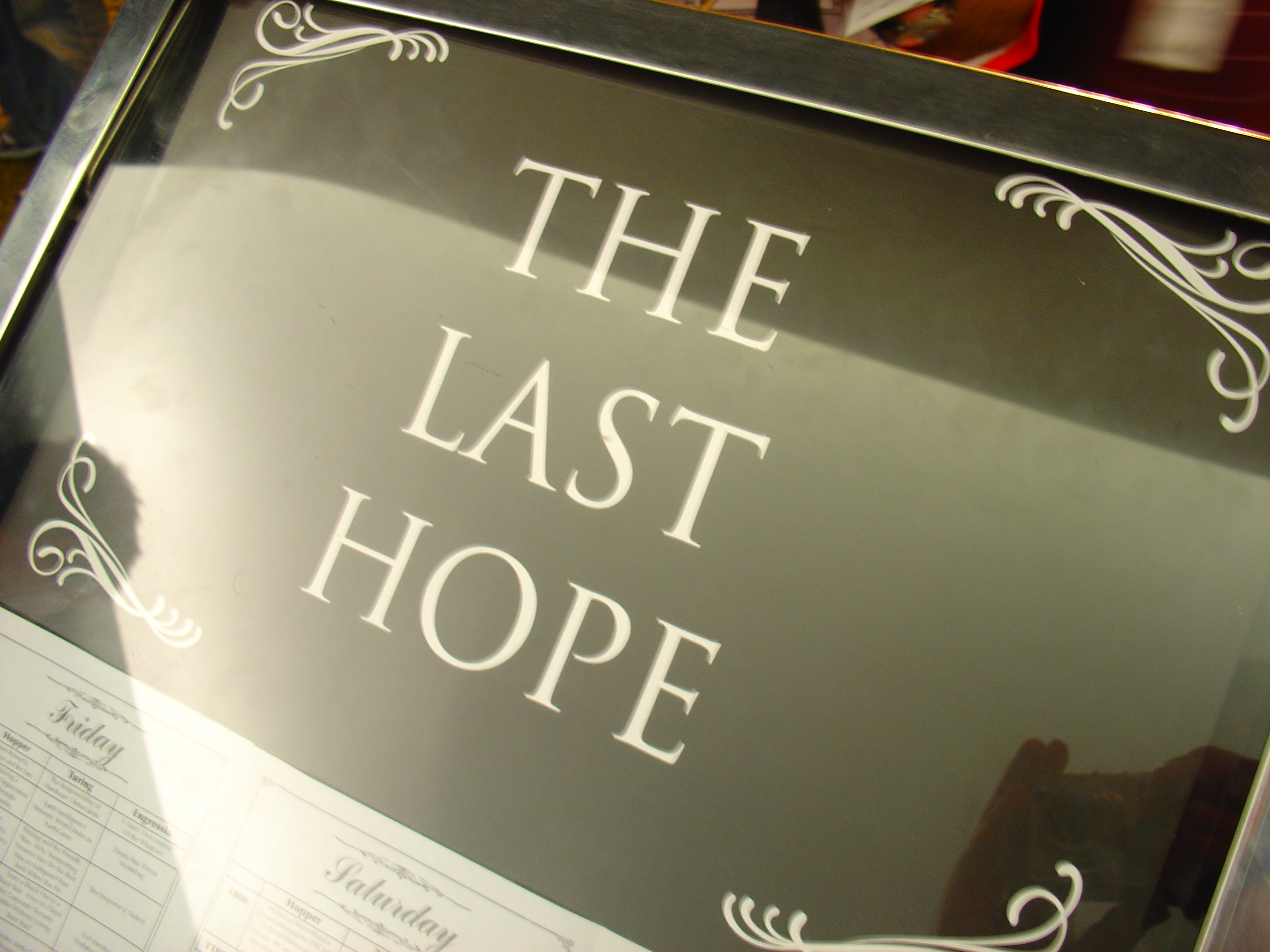 The Last HOPE in NYC, July 18-21st, 2008